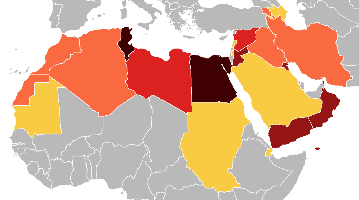 Mock-up of a map for 2010-2011 Middle East and North Africa protests, revised to fully include Iran, Azerbaijan, and Armenia (partially cut off in current map).